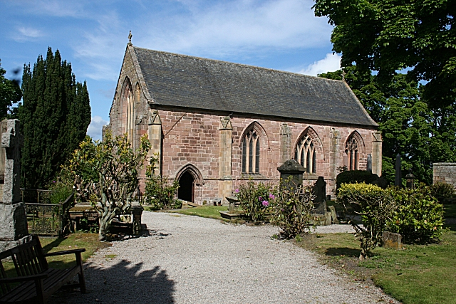 St Duthus Kirk Tain has a long history, associated with St Duthus or Duthac, to whom the ruined chapel and this kirk are dedicated.